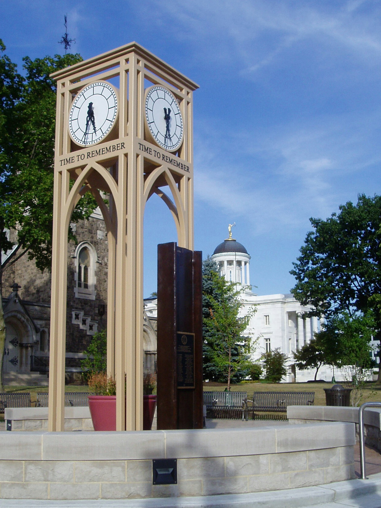 9/11 Memorial and Court House in Somerville, NJ (2005)